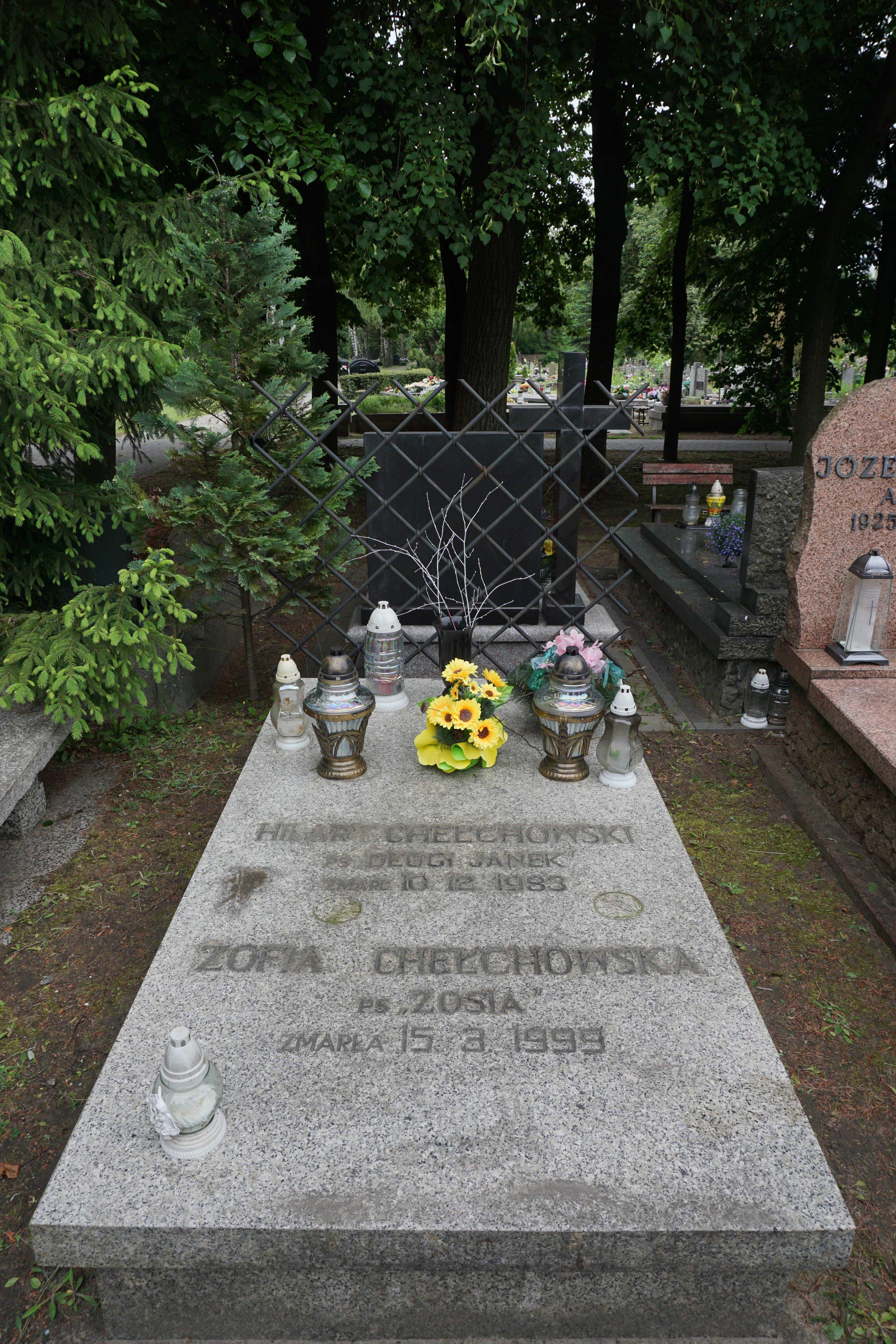 The grave of Hilary Chełchowski at the North Municipal Cemetery in Warsaw (section E-V-2, row 2, grave 2)